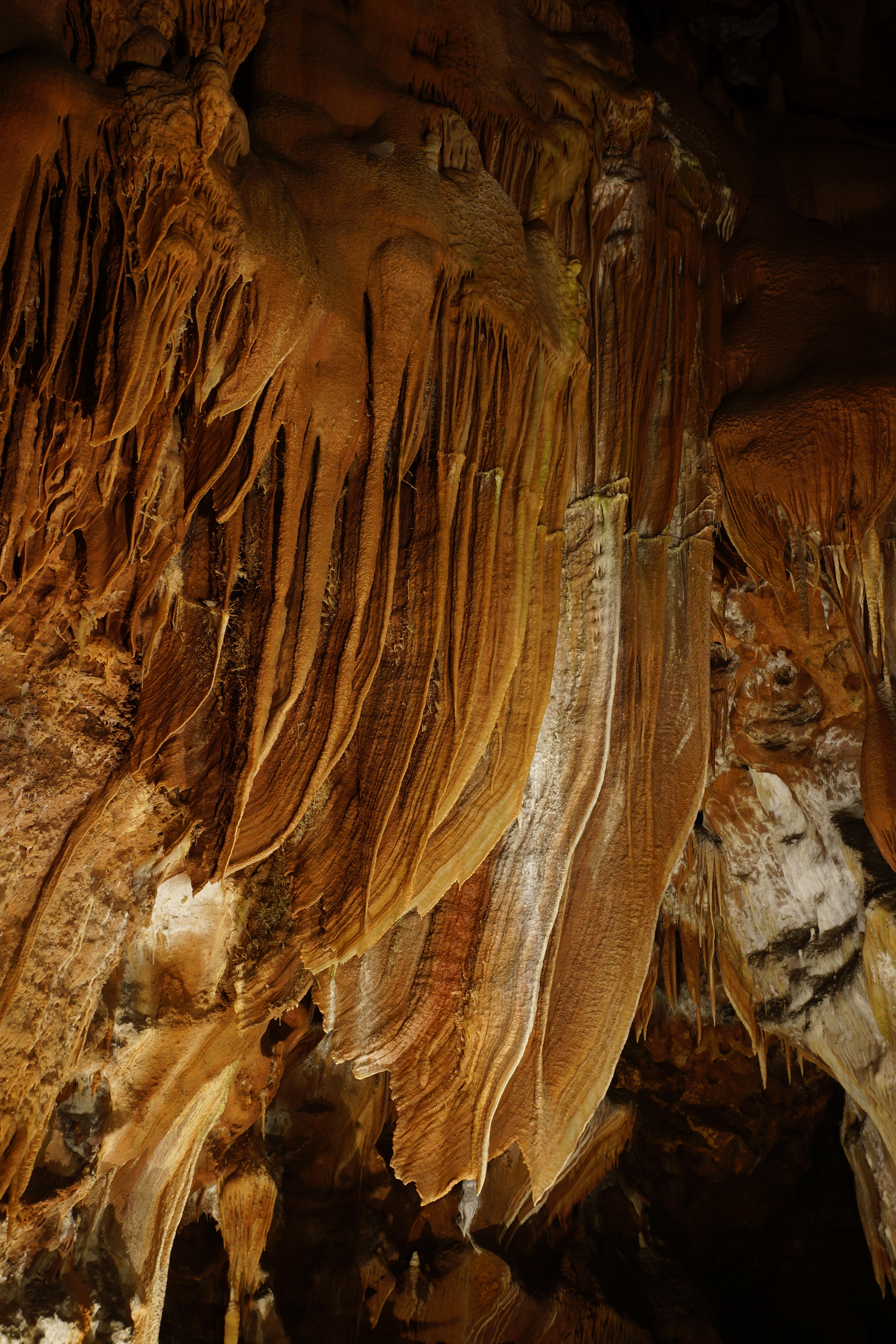 Grandes draperies Grotte de la Madeleine